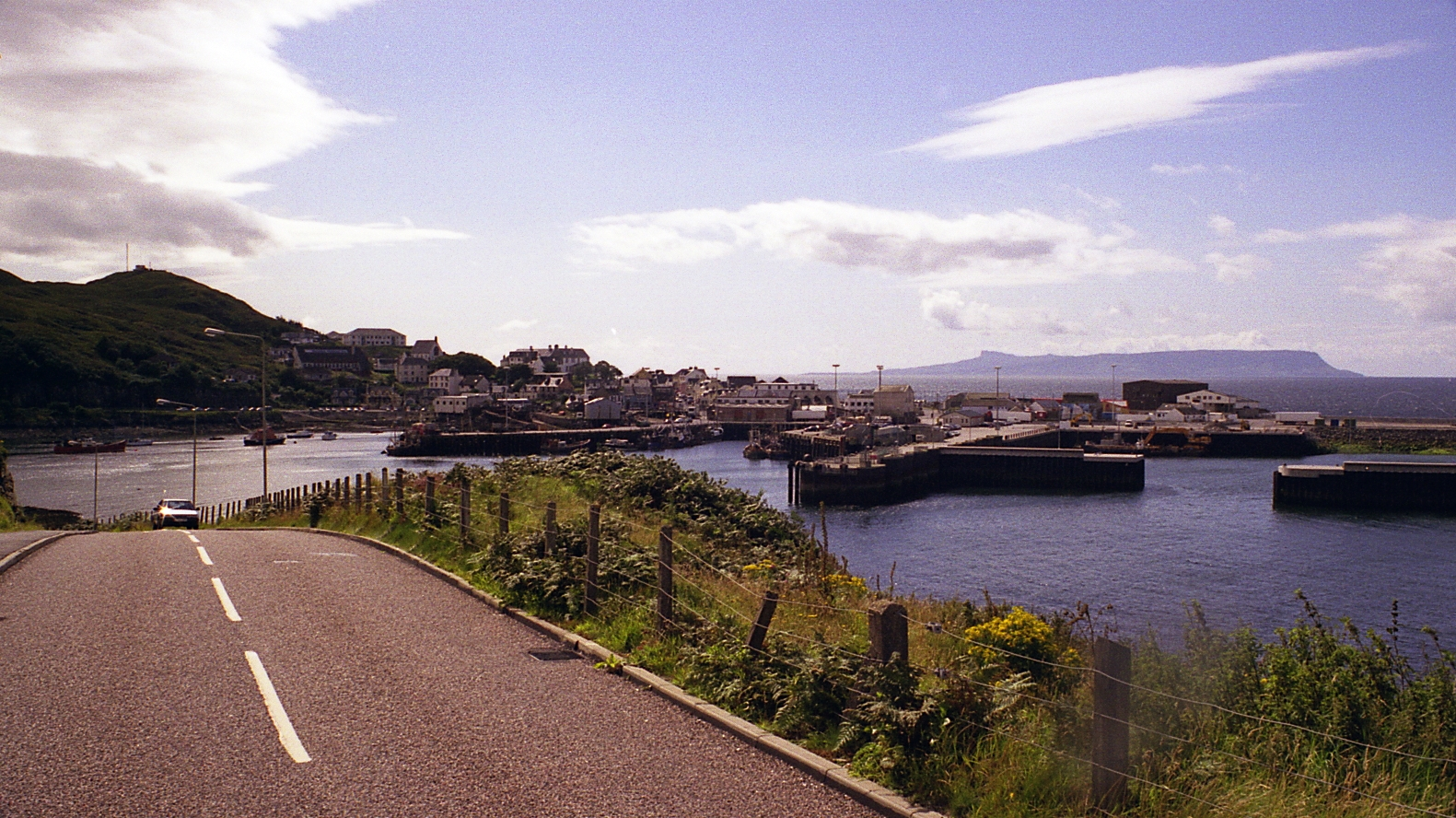 Mallaig, Highland, Scotland, UK 2003